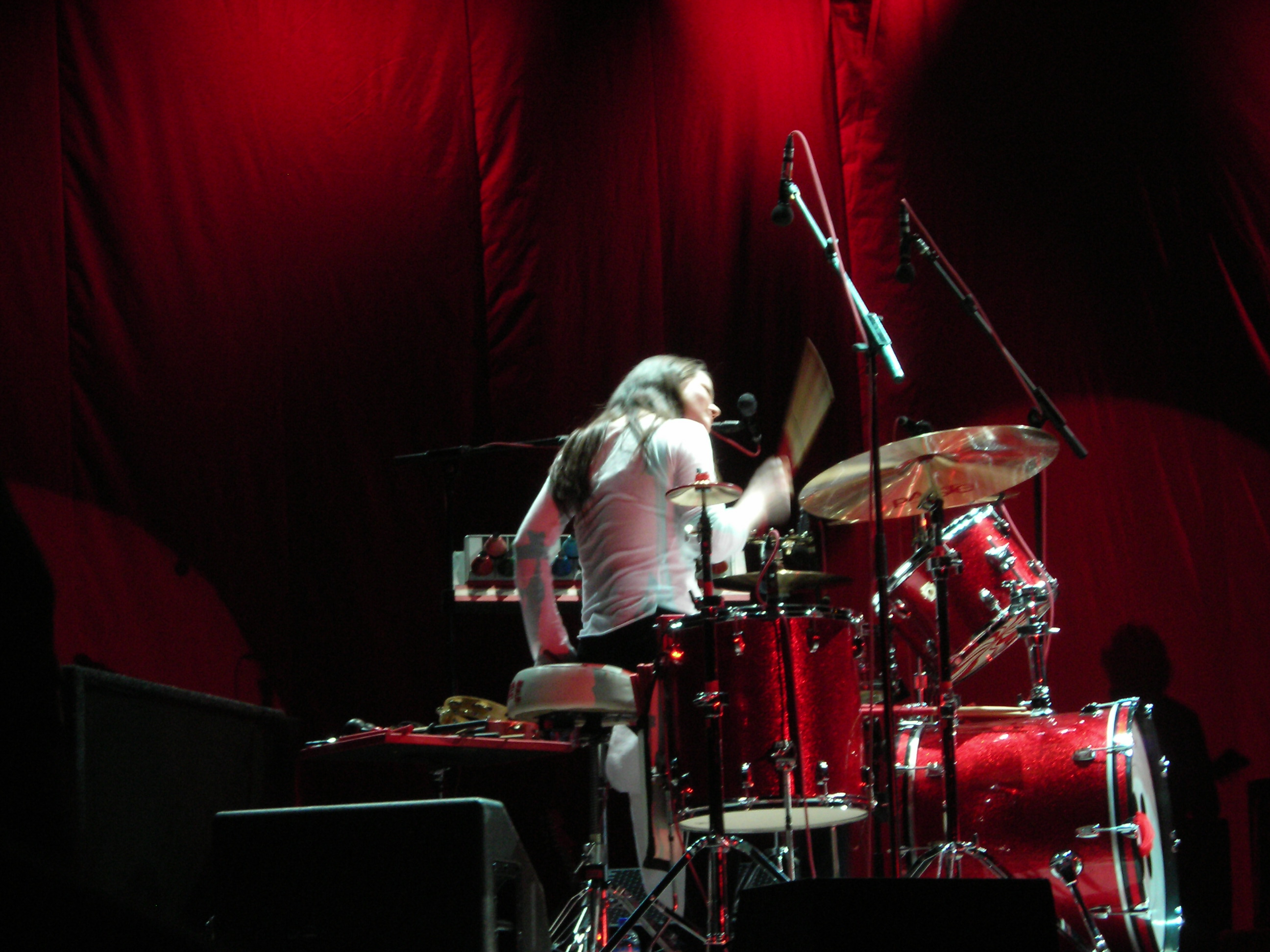 Meg White no Primavera Sound '07